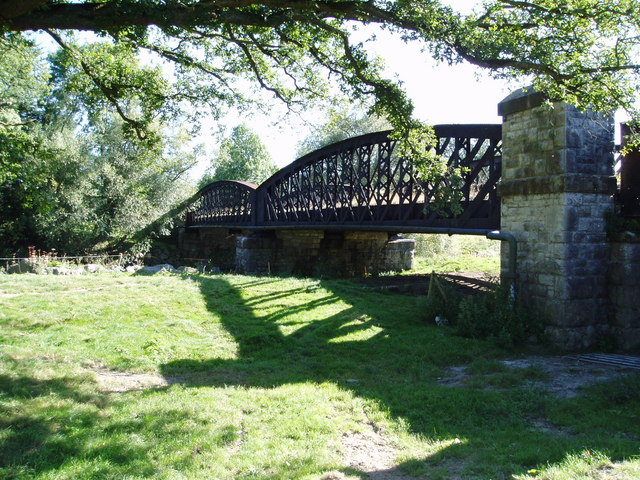 River Severn, Penstrowed railway bridge Cambrian Line from Newtown to Machynlleth crosses the River Severn. Considered to be the twenty sixth bridge from the source.